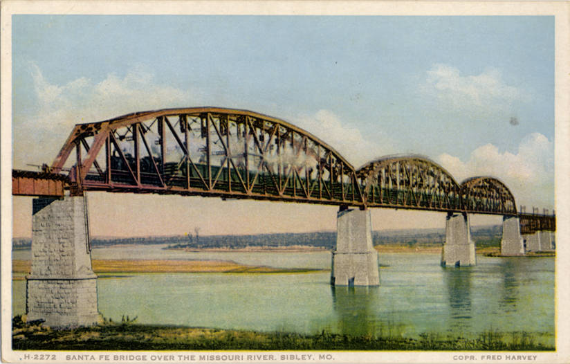 Santa Fe Bridge over the Missouri River, Sibley, Mo. Fred Harvey series.